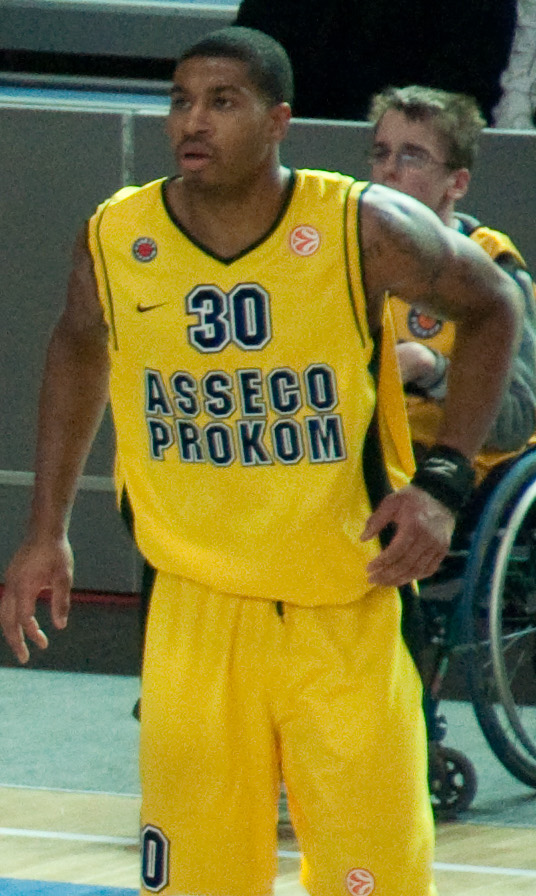 Ronald Burrell during Euroleague game between Assecco Prokom and Tau Ceramica.